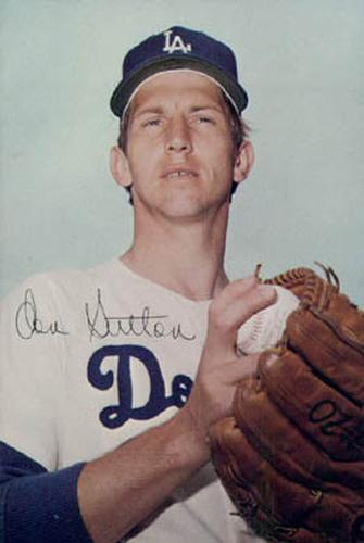 A baseball card of Don Sutton from the 1971 Ticketron Los Angeles Dodgers set.